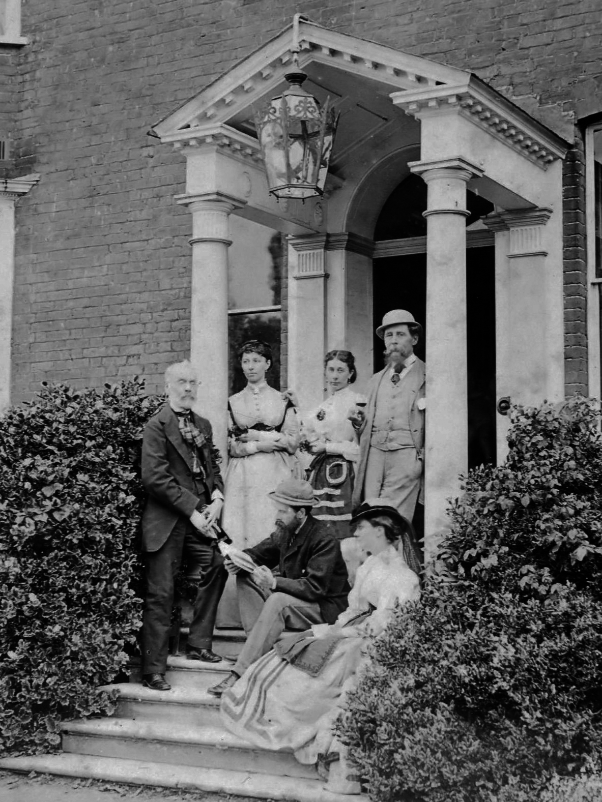 Dickens with family and friends on the porch at Gad's Hill Place